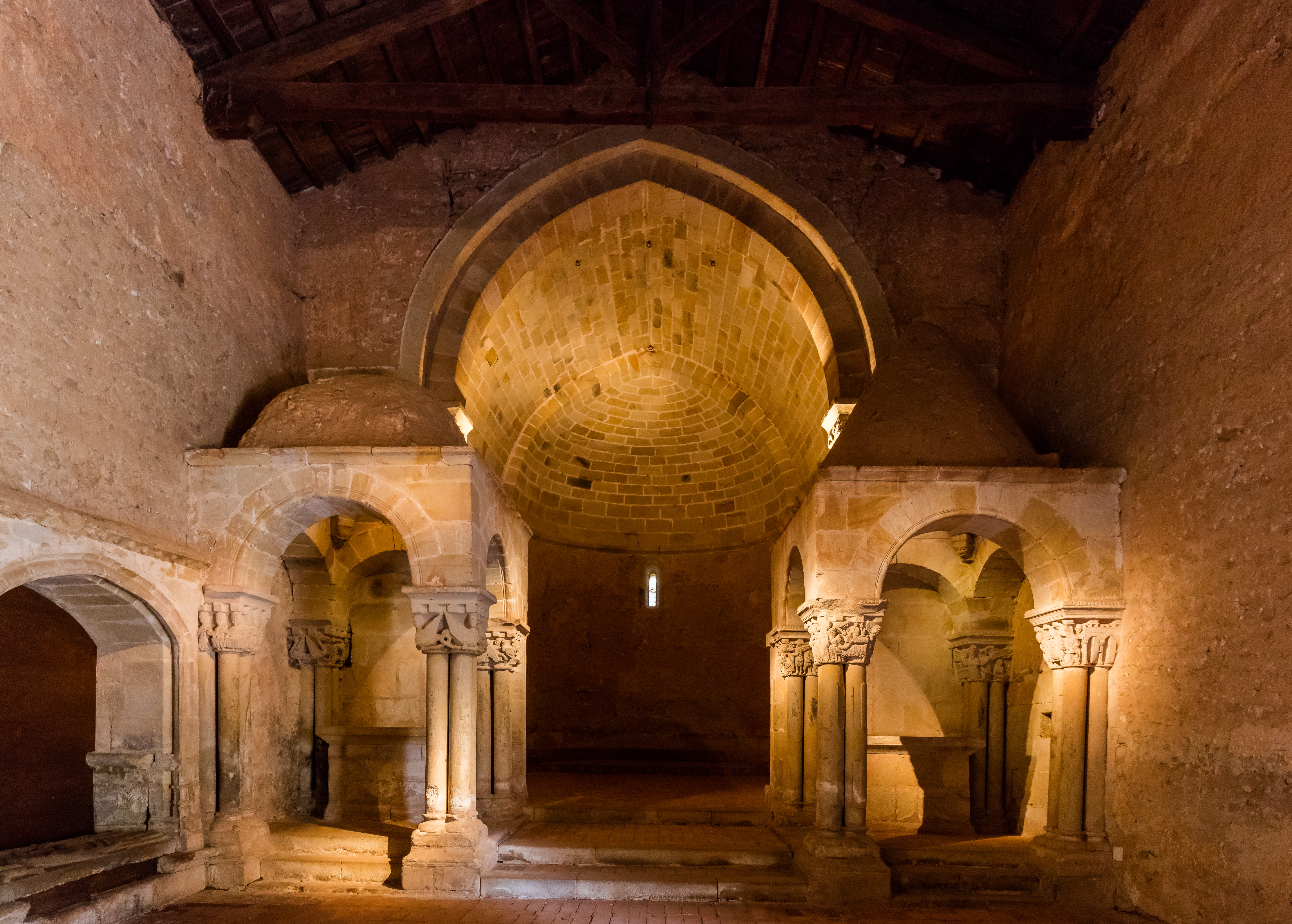 Monastery of San Juan de Duero, Soria, Spain